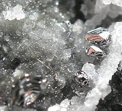 Tellurium, Quartz Locality: Emperor Mine, Vatukoula, Tavua Gold Field, Viti Levu, Fiji (Locality at ) Size: 6.8 x 5.1 x 1.3 cm. On the nice, crystallized quartz of the display face are two larger crystals which are almost 2 mm in size, bright and sharp, and possibly twinned. This is a display-sized specimen rich with perhaps 20 sub-mm crystals that are smaller, but still eye visible and very sparkly so the appearance of the piece as a whole is quite rich, scattered all over it.